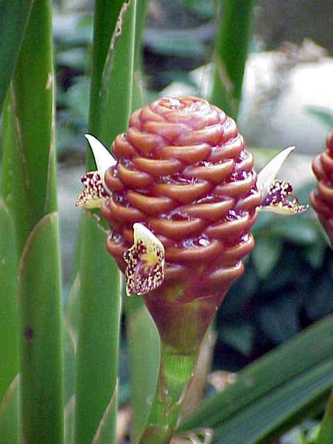 Species: Zingiber macradenium Family: Zingiberaceae Image No. 4